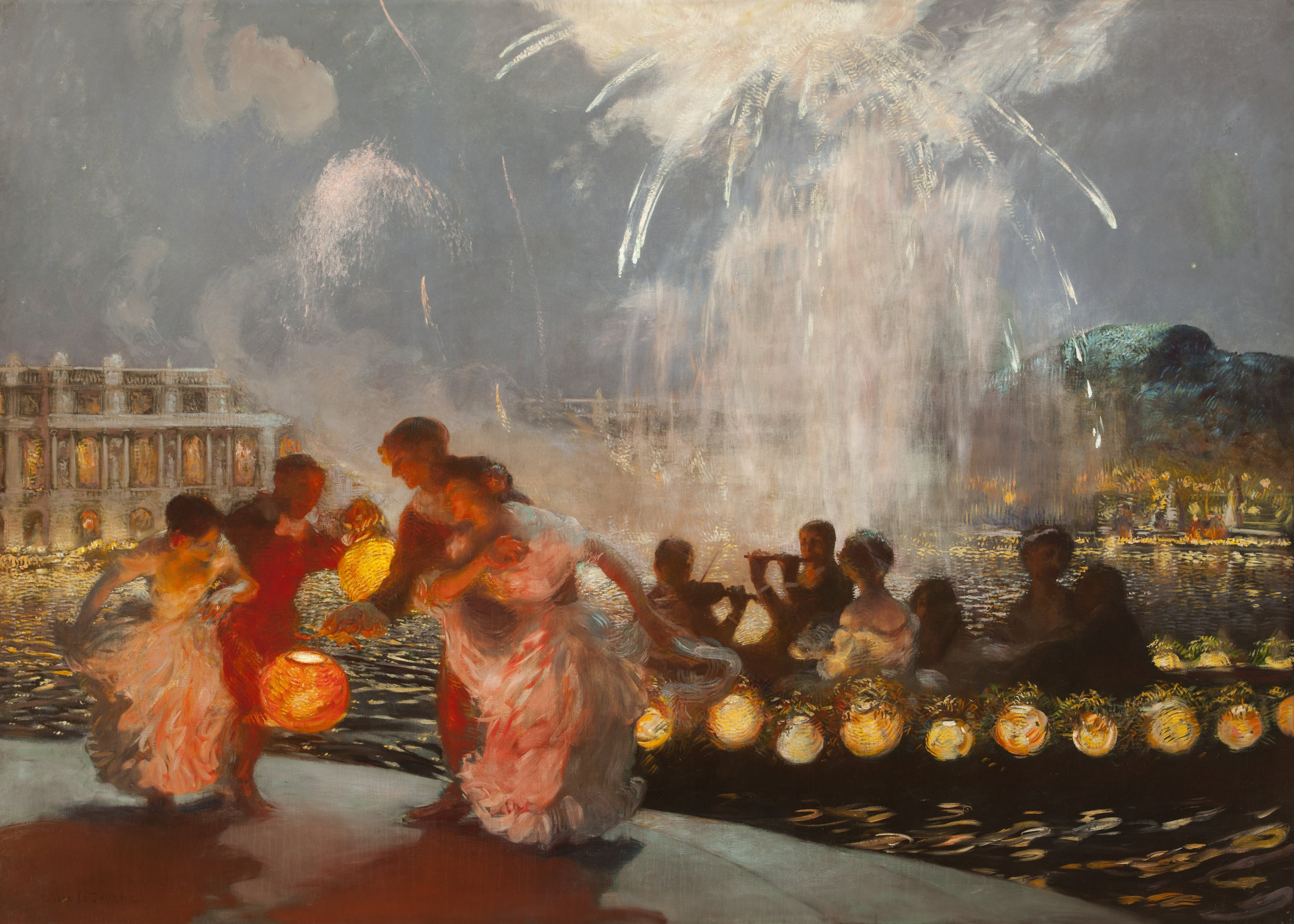 The Joyous Festival - Gaston La Touche - Google Cultural Institute